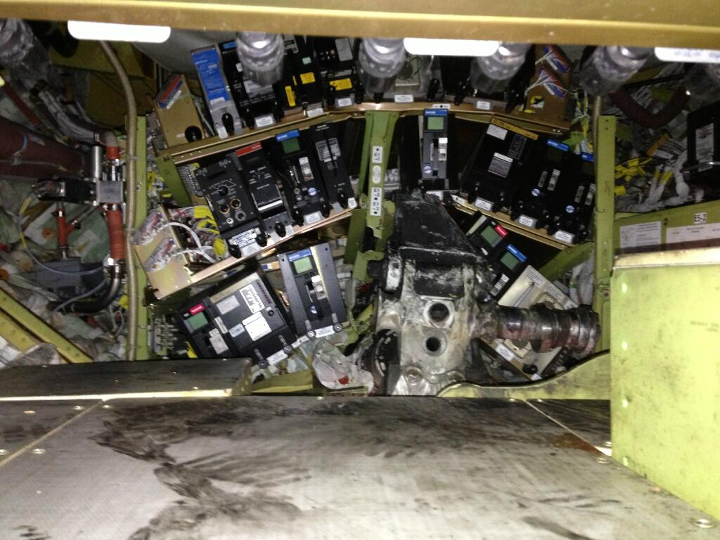 Image shows landing gear of Southwest Airlines Flight 345 jammed upwards into the electronics bay. Original description by NTSB: NTSB pic of electronics bay of Southwest 737 at LGA penetrated by landing gear. Only right axle attached.